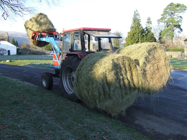 Winter feed...Hay Bales 'parked' on the village green